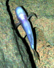 Typhlichthys subterraneus from the Appalachians.